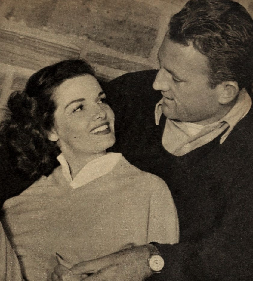 Jane Russell with her first husband Bob Waterfield, 1952